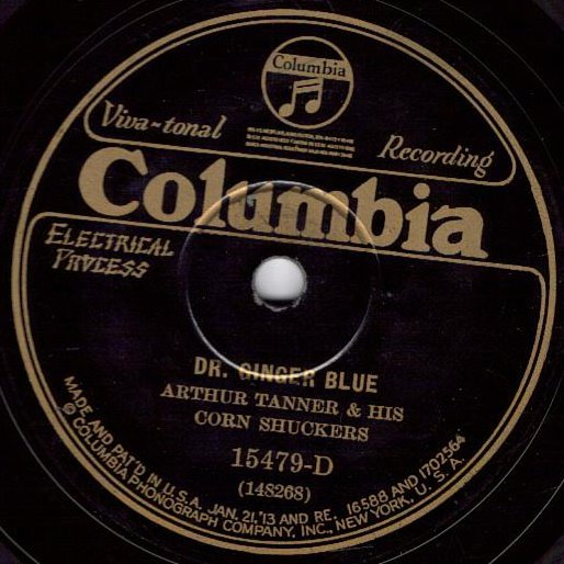 Dr. Ginger Blue by Arthur Tanner and his Corn Shuckers, Columbia 1929.